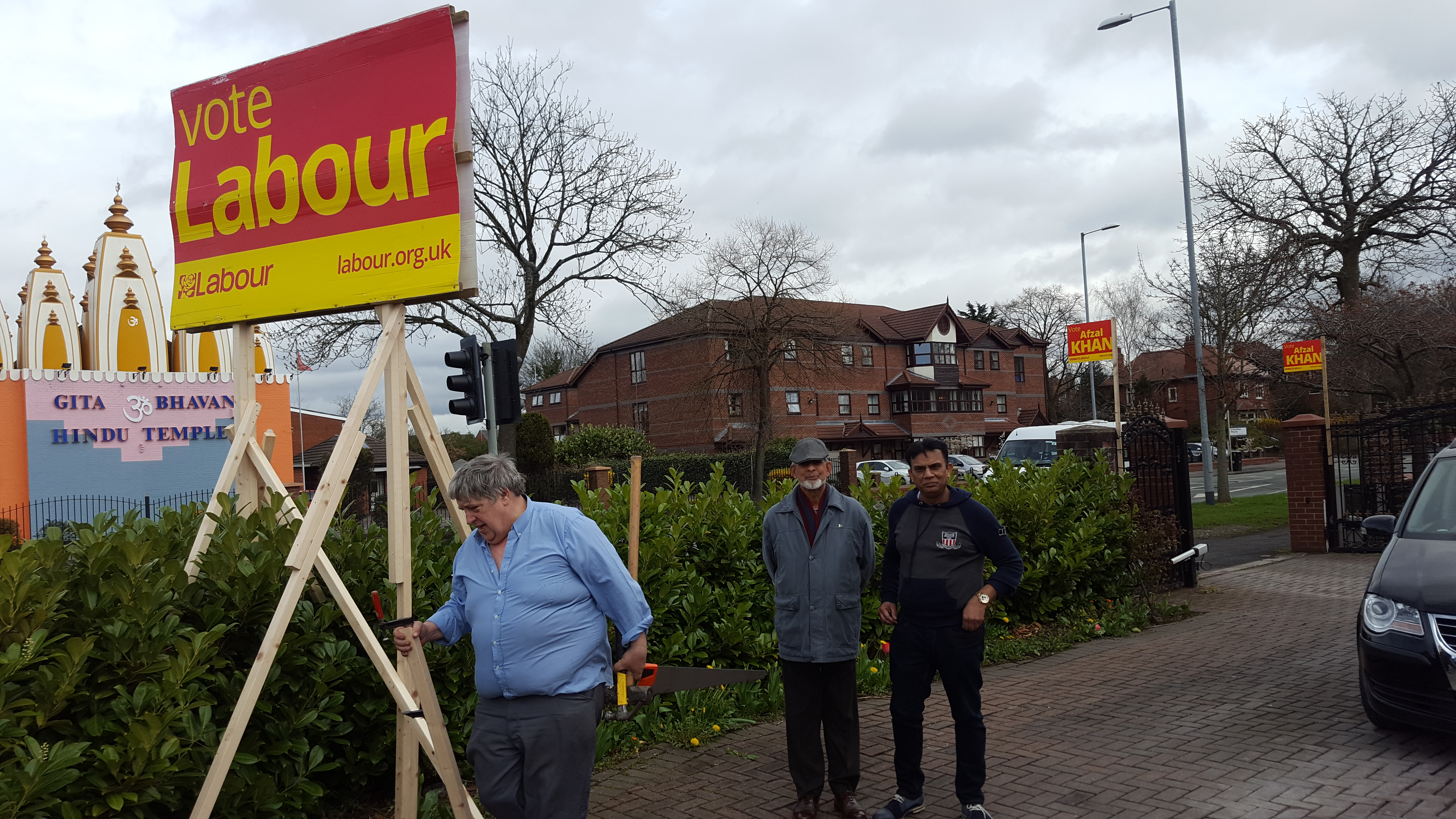 Labour Party poster campaign for the Gorton bye election